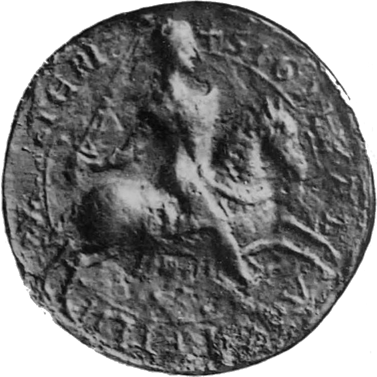 Photograph of the seal of Alan fitz Walter, Steward of Scotland (died 1204).